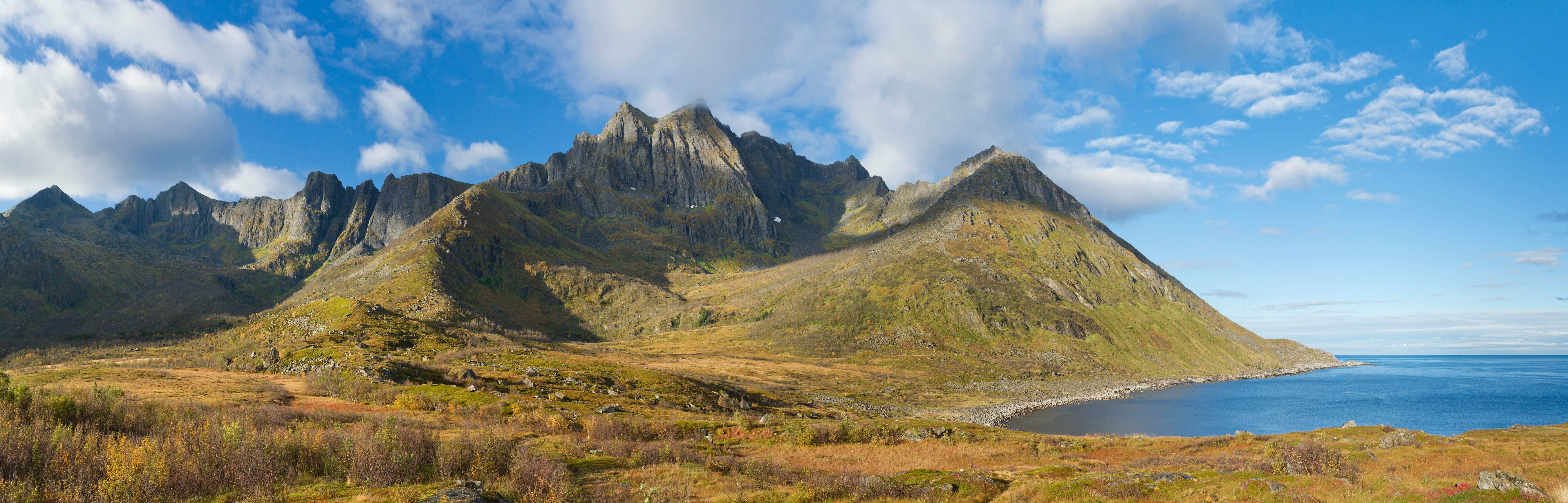 The mountain massif around Fjølhaugen on Senja, Troms, Norway in 2015 September. The bay on right is Knutevika and is part of Mefjorden.